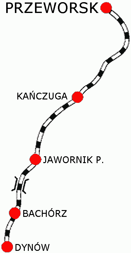 Map